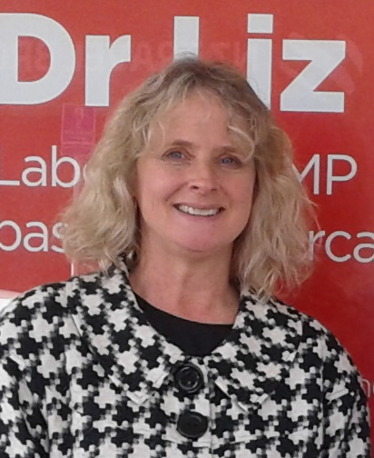 Liz Craig MP